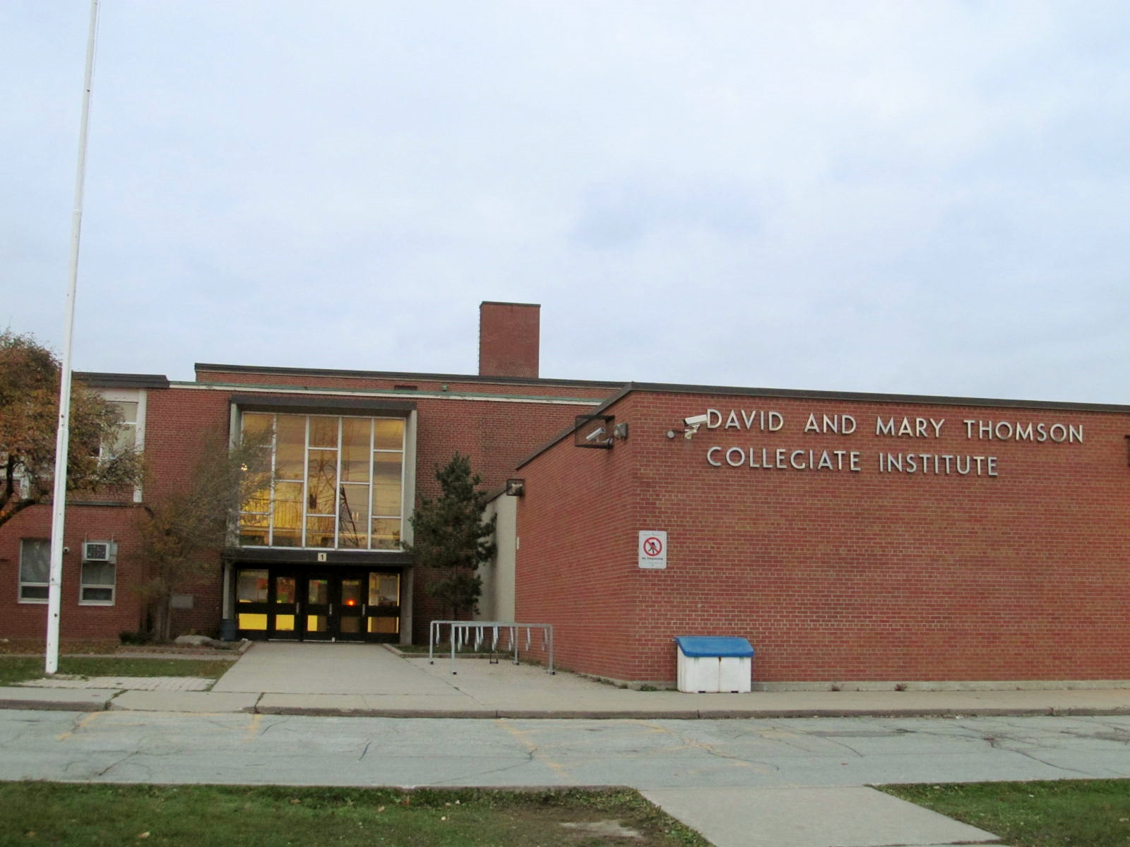 View of David and Mary Thomson CI from the south, November 2014.